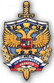 Official emblem of Moscow Oblast Police